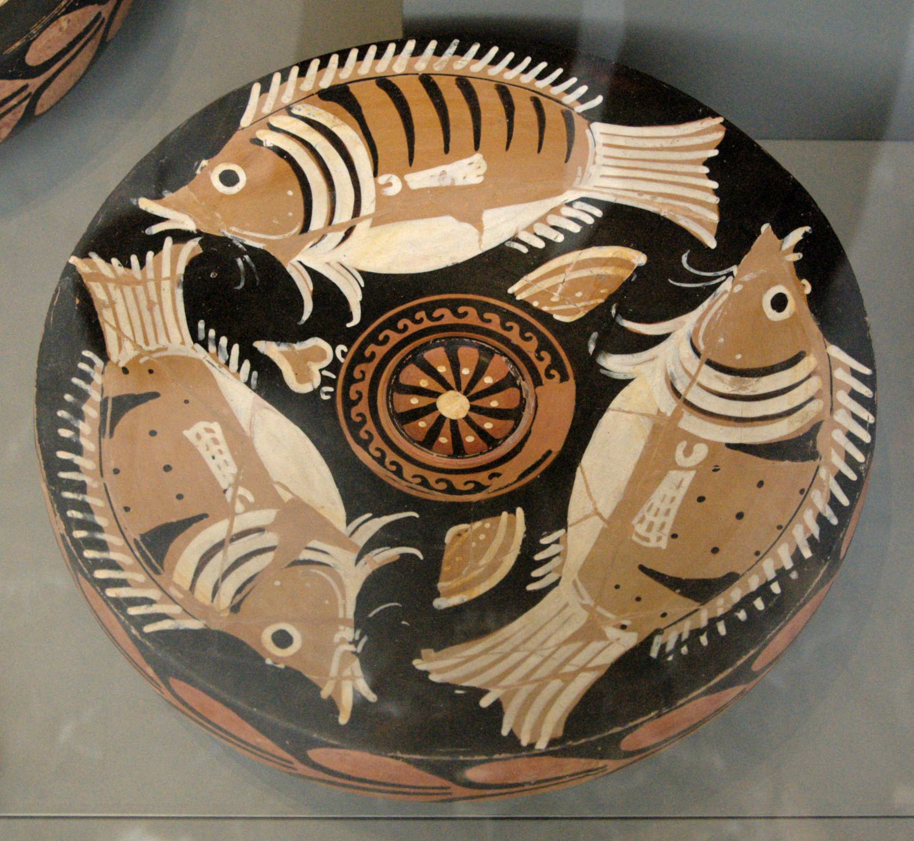 Apulian red-figure fish plate, ca. 340 BC.